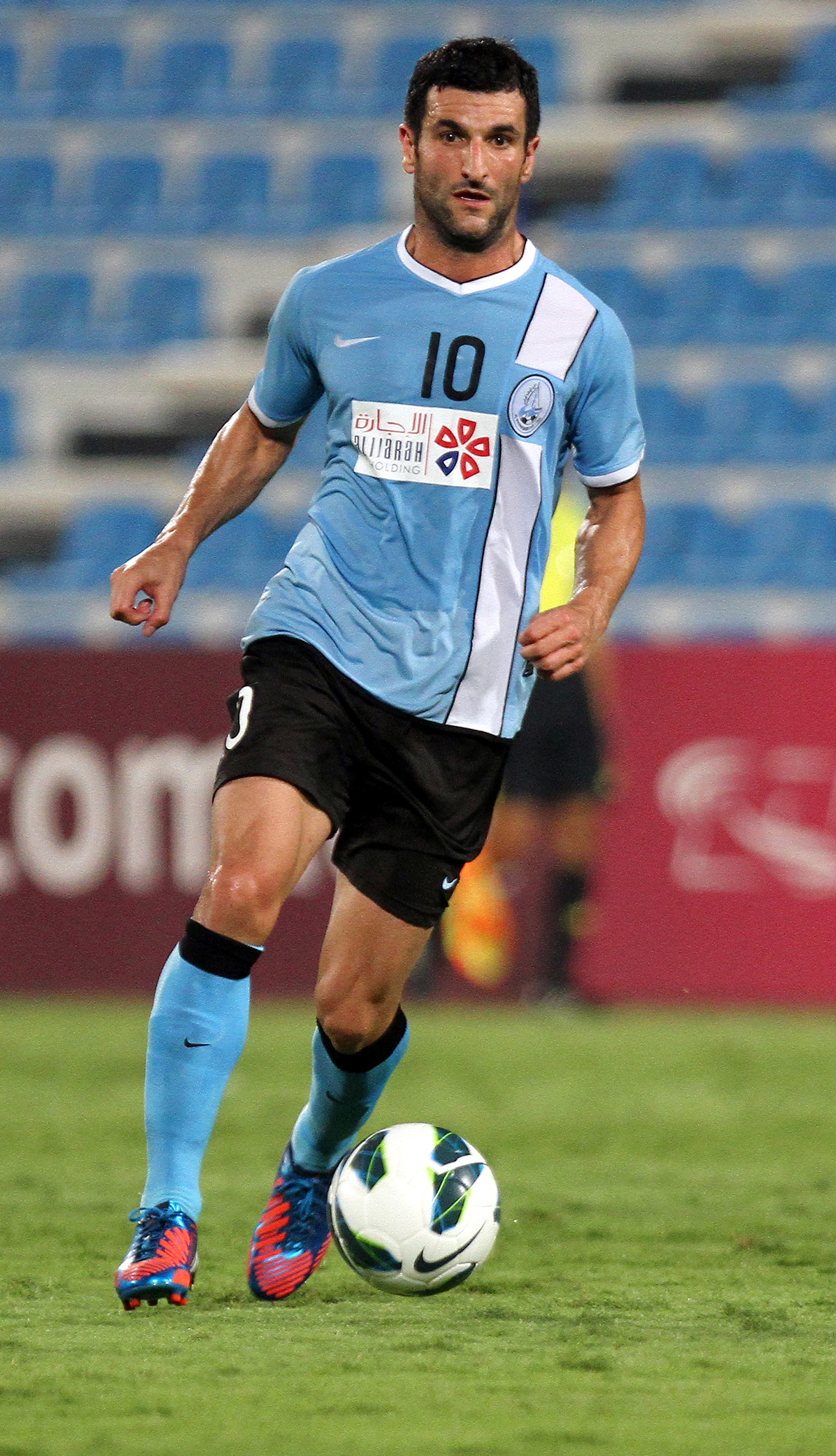 Al Wakrah's French professional Pierre-Alain Frau controls the ball during a Qatar Stars League match. Picture by Vinod Divakaran